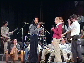 Chantel on stage with the Amazing Circus Midgets